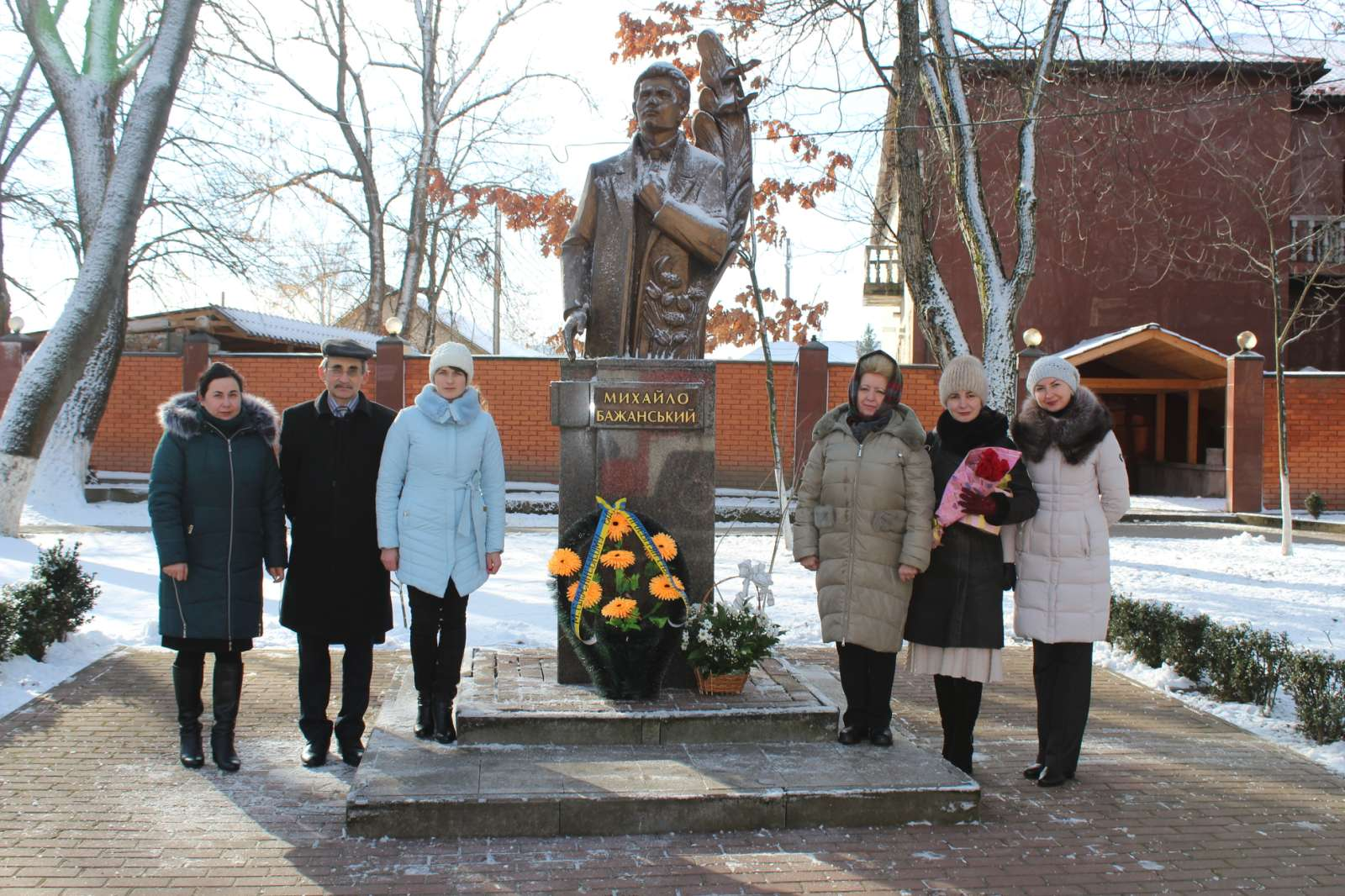 Редколегія журналу"Снятин".